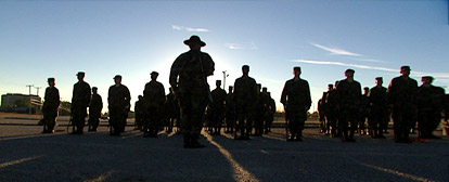 A drill sergeant with rows of recruits. U.S. Military publication, public domain